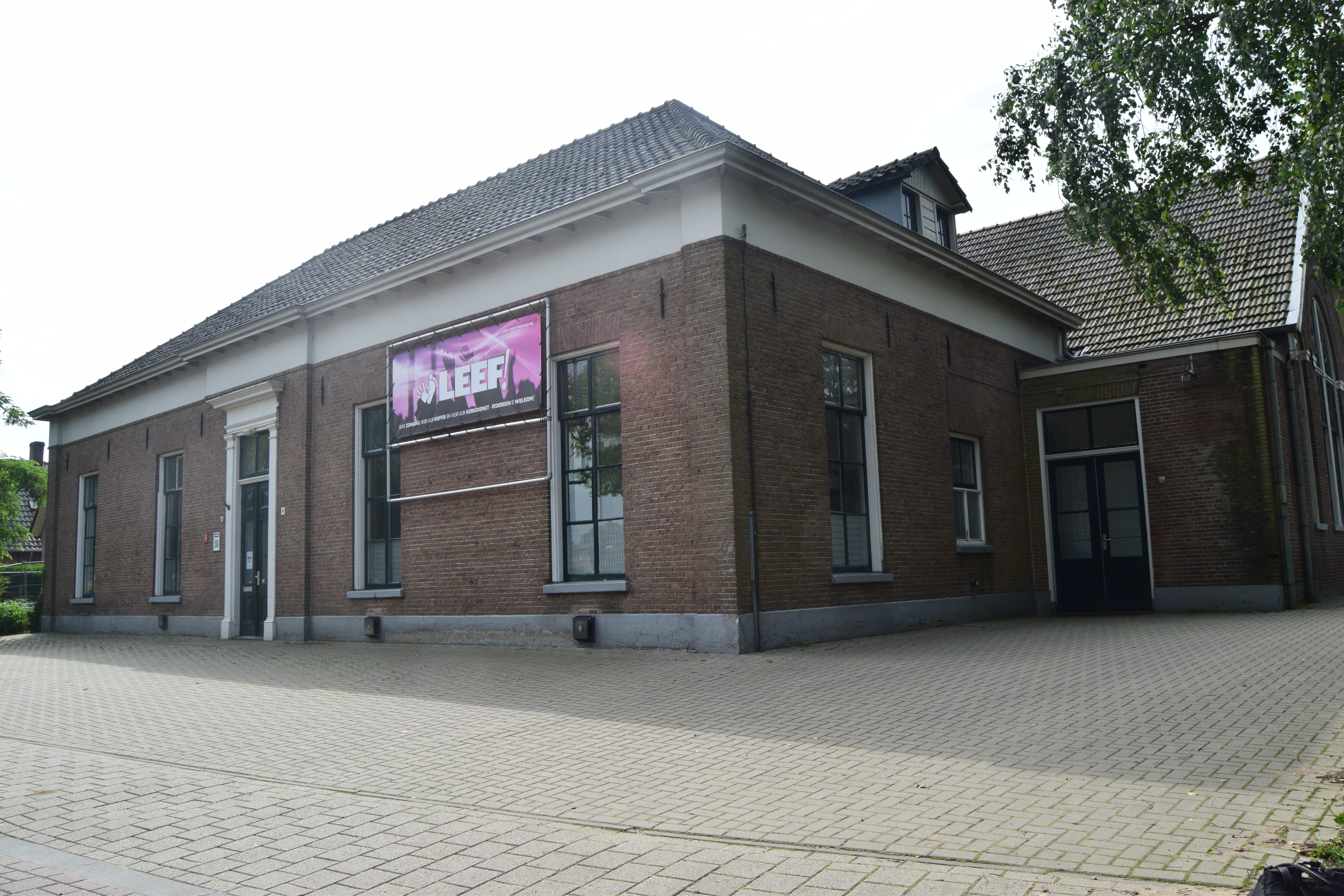 Former city hall and school of Ambt Doetinchem. It nowadays (February 2017) hosts a church. Varsseveldseweg 106, Doetinchem, the Netherlands.